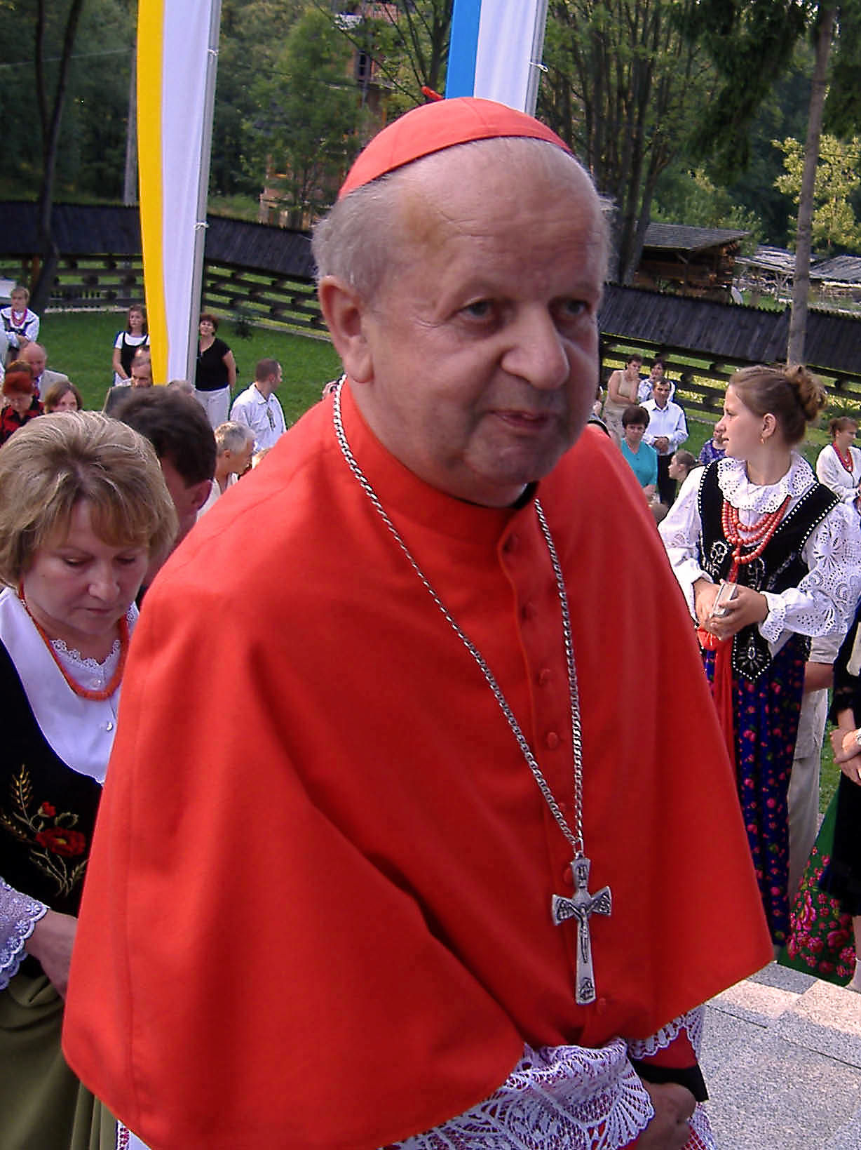 His Eminence Stanisław Cardinal Dziwisz (born April 27, 1939 in Raba Wyżna), is a Polish prelate of the Roman Catholic Church